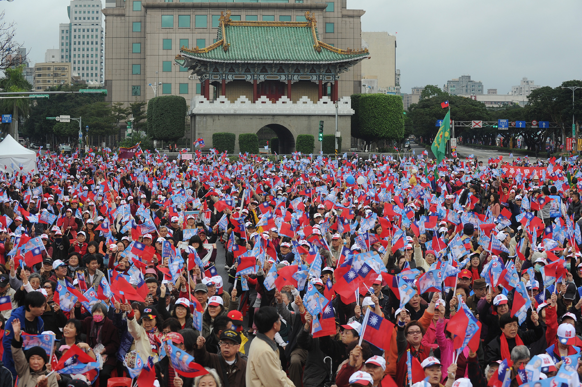 Supporters of KMT presidential candidate Ma Ying-jeou attend a rally on Taipei’s Ketagalan Blvd. on Jan. 8, 2012.